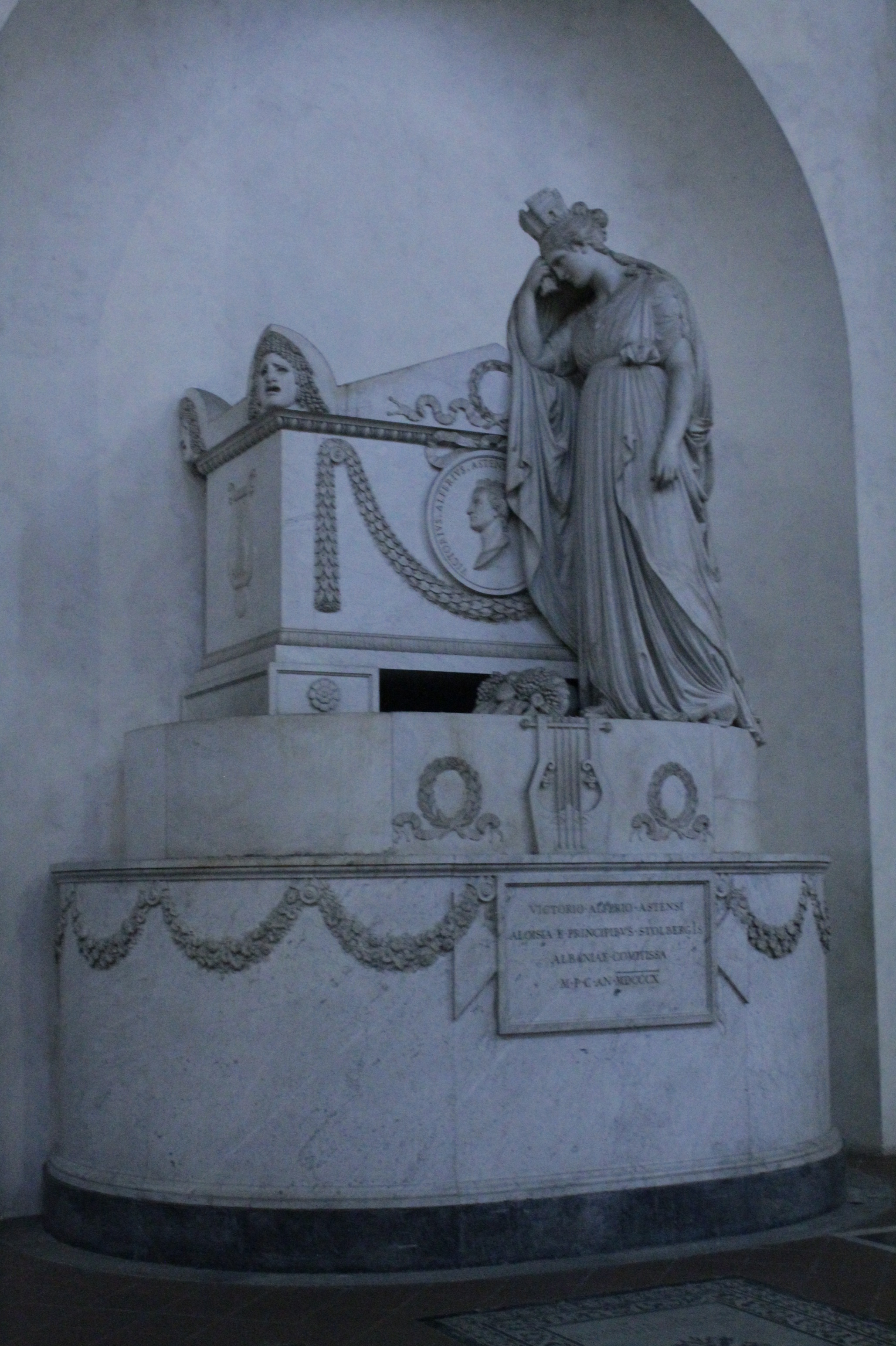 The tomb of Vittorio Alfieri, Santa Croce, Florence